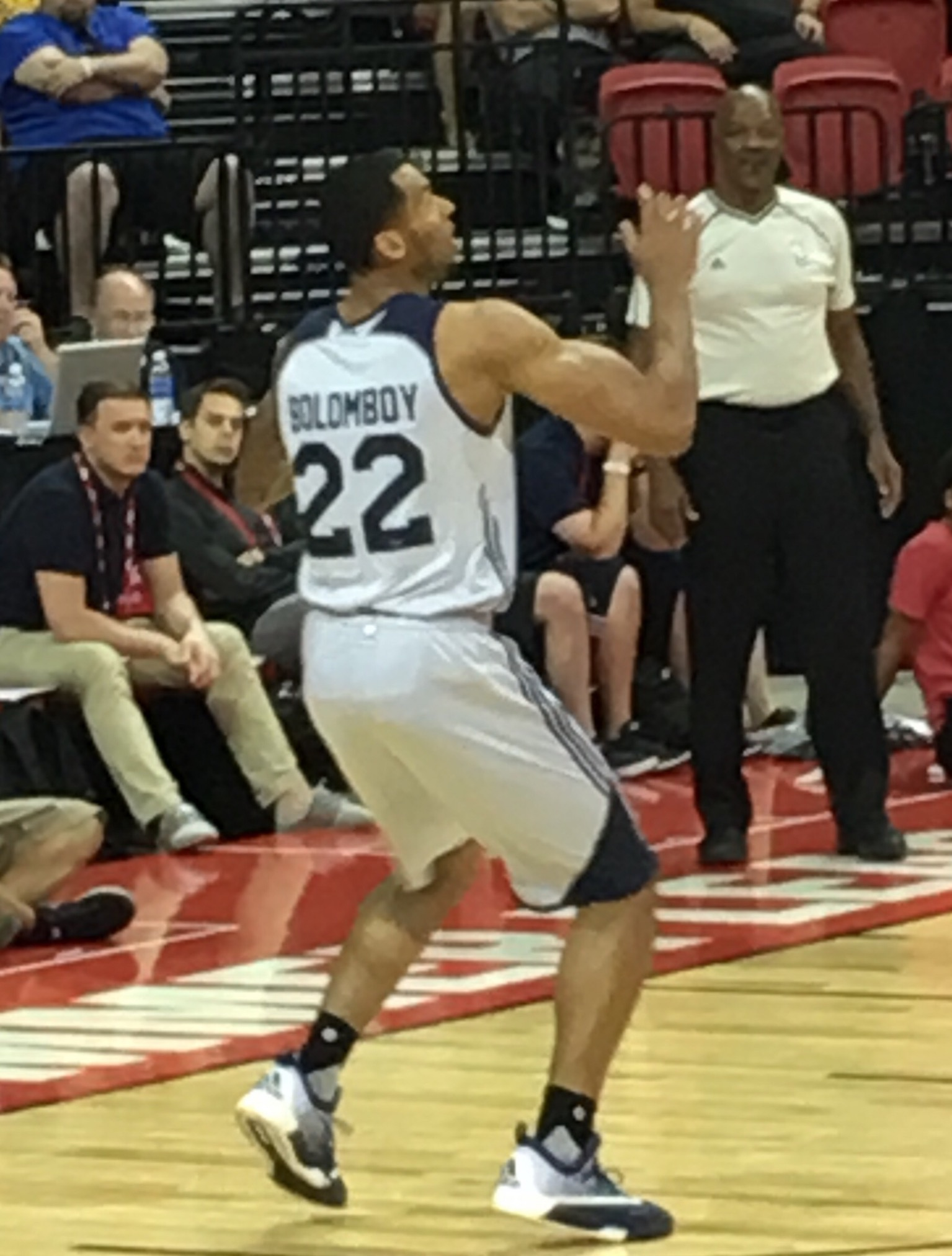 Joel Bolomboy at 2016 NBA Summer League